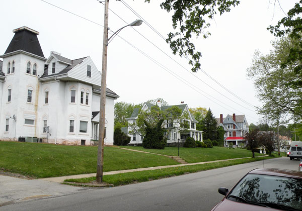 Picture taken on South Wade Avenue not far from the corner of Harrison Street in the East Washington Historic District of Washington, Pennsylvania, on May 1, 2010. Many houses in this area were built from the late 1800s into the early 1900s, and the district is listed on the National Register of Historic Places.